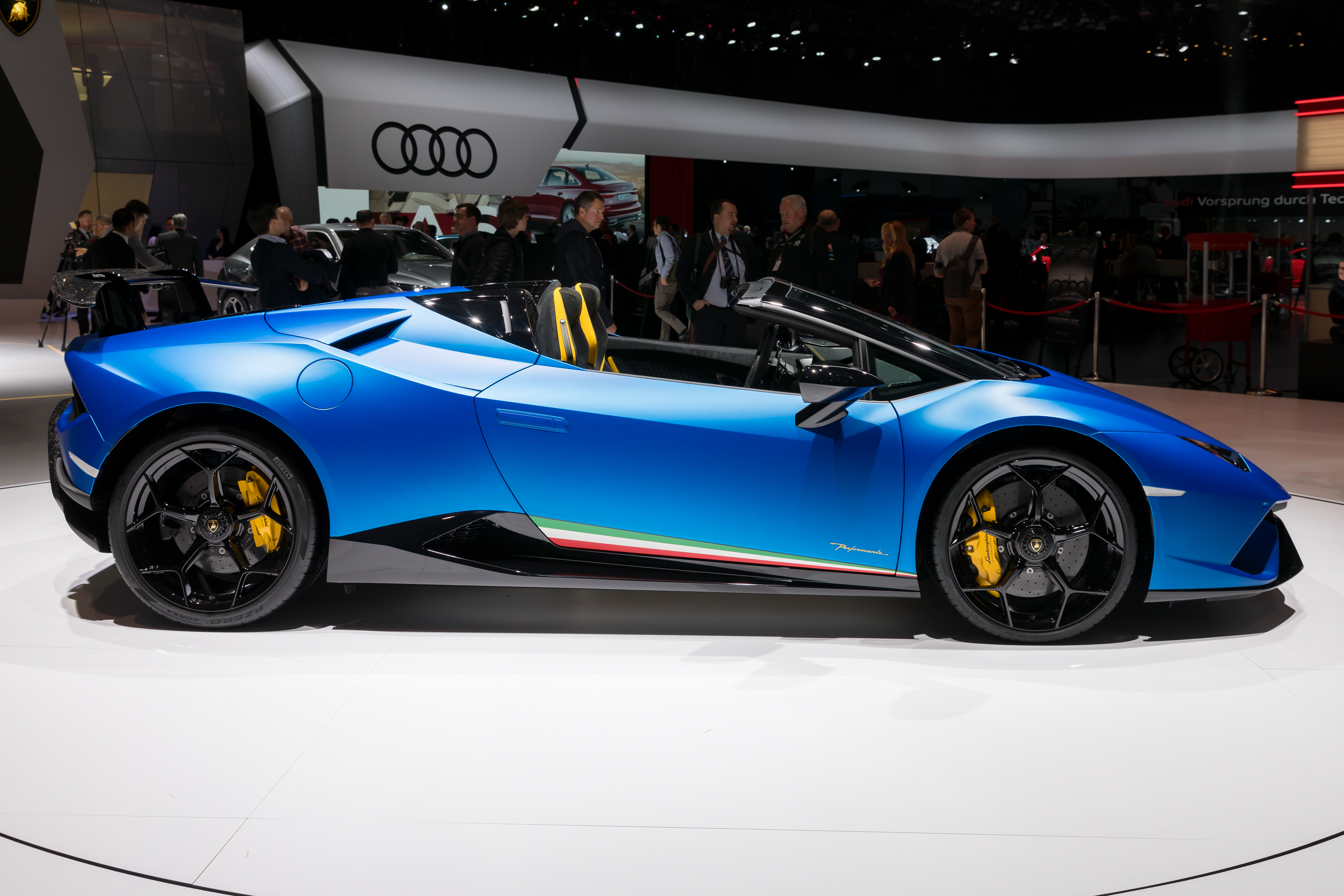 Lamborghini Huracán LP 640-4 Performante Spyder, Geneva International Motor Show 2018